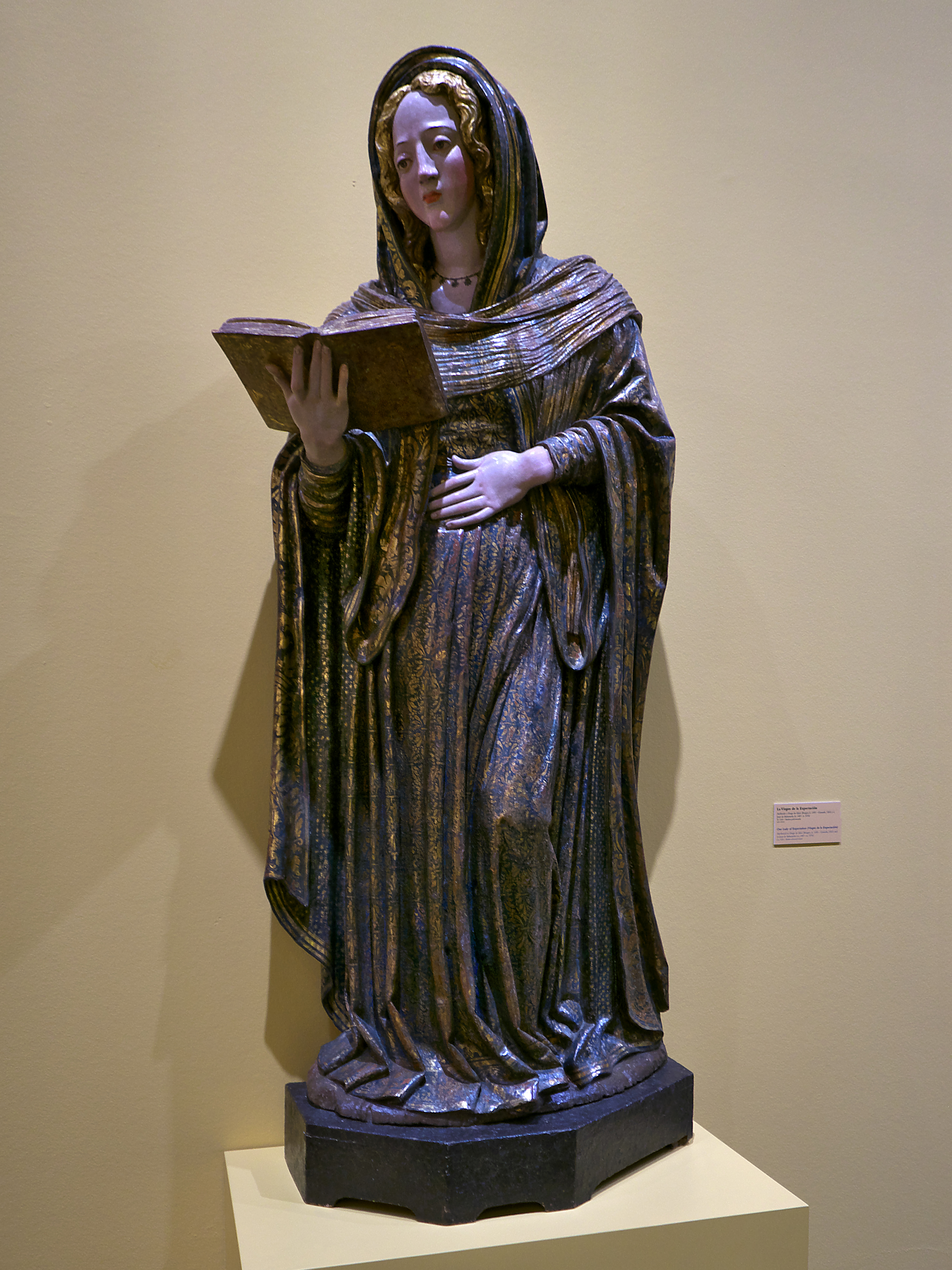 Our Lady of Expectation (h. 1530), multi-cloured wood. Attributed to Diego de Siloé and to Juan de Balmaseda.